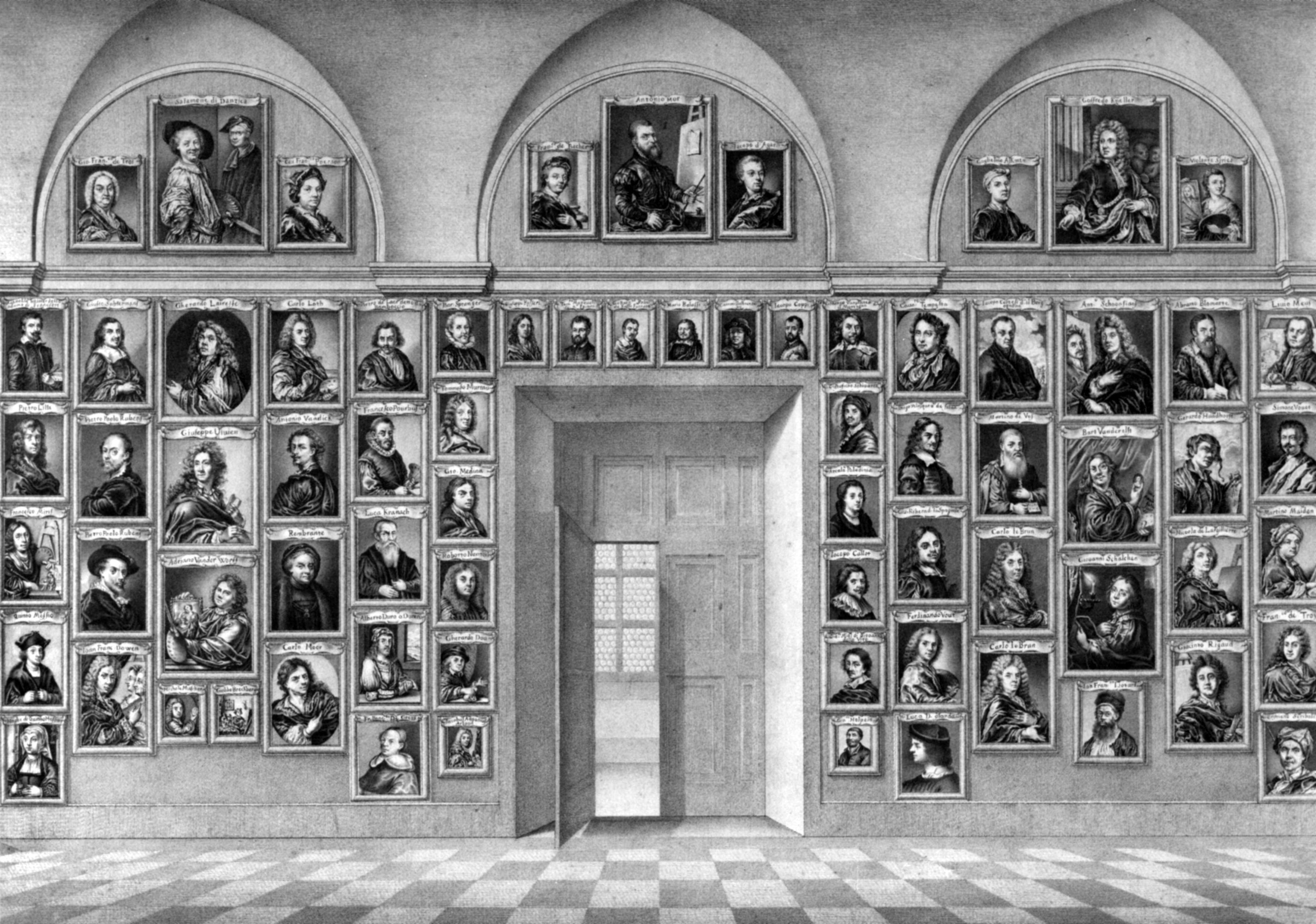 Medici Gallery of Self-portraits at the Uffizi showing the painters of the northern European SchoolsNationalbibliotheke, Vienna.